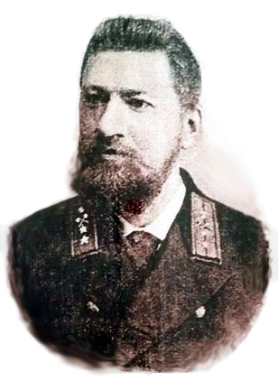 Russian architect Gregory Artynov (1860-1919)